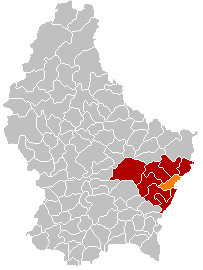 Own edit of Kanton GrevenmacherLocatie.png